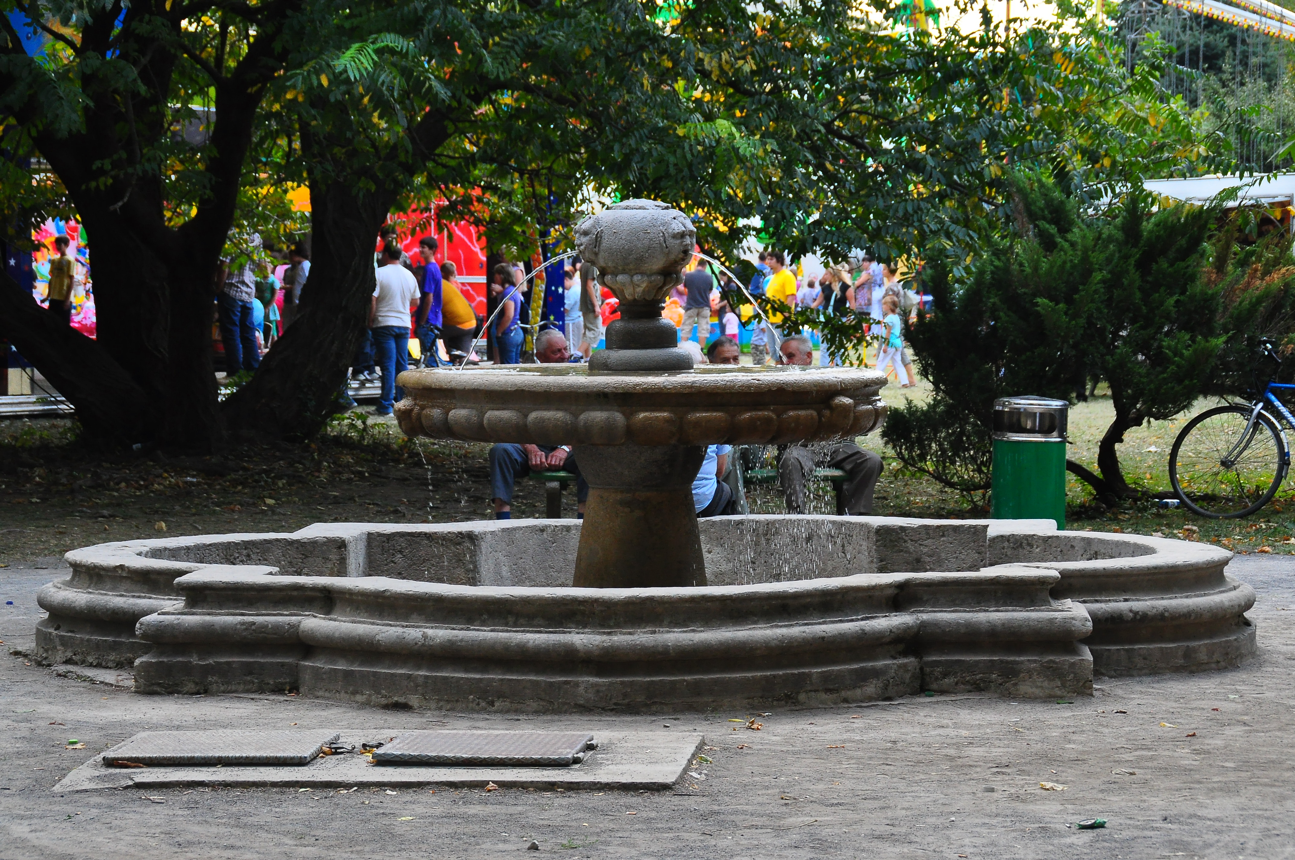 Fountain in the Lanthieri park of Vipava, Goriška, Slovenia